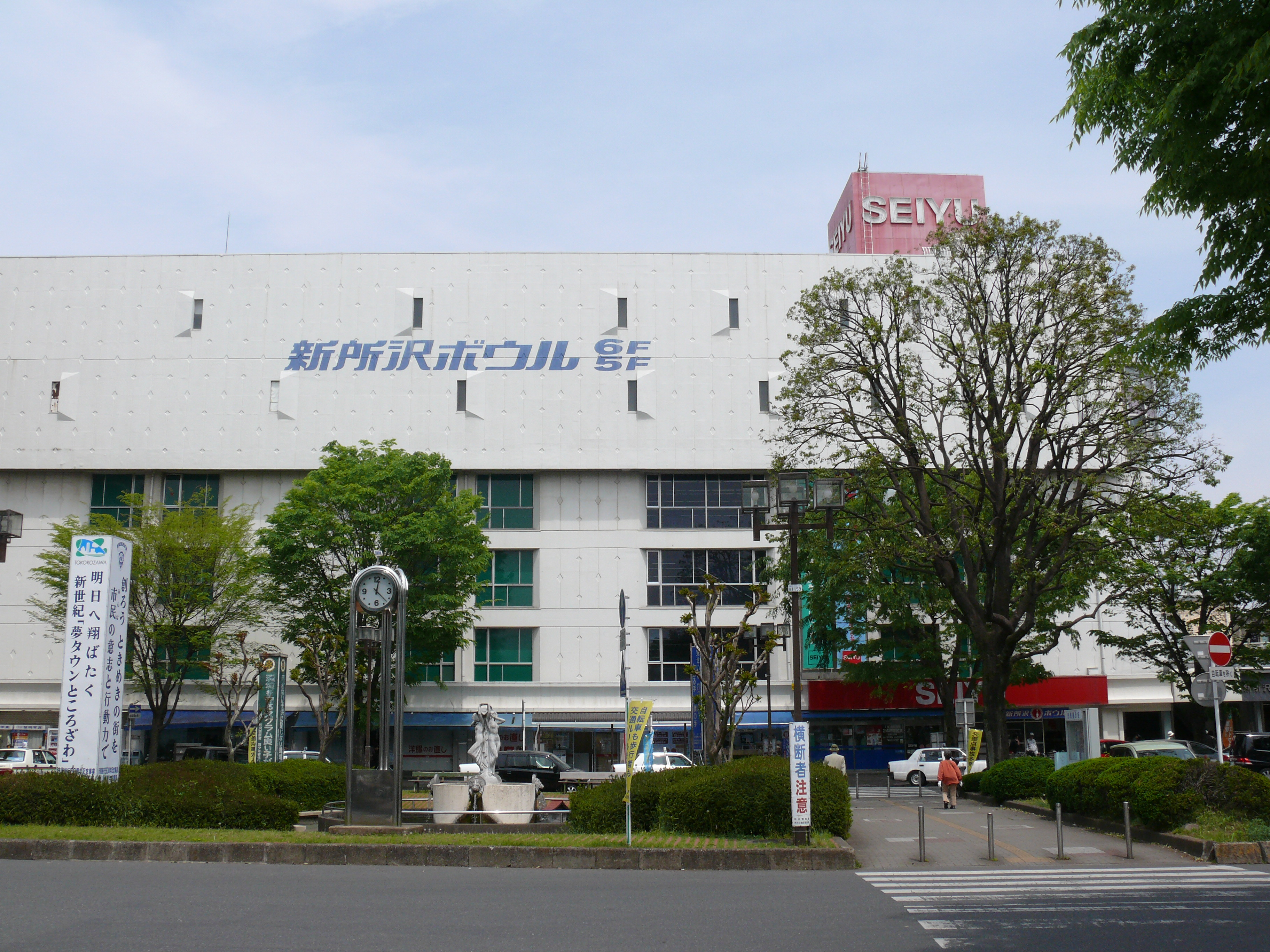 West side of Shin-Tokorozawa Station on the Seibu Shinjuku Line, in Tokorozawa, Saitama, Japan